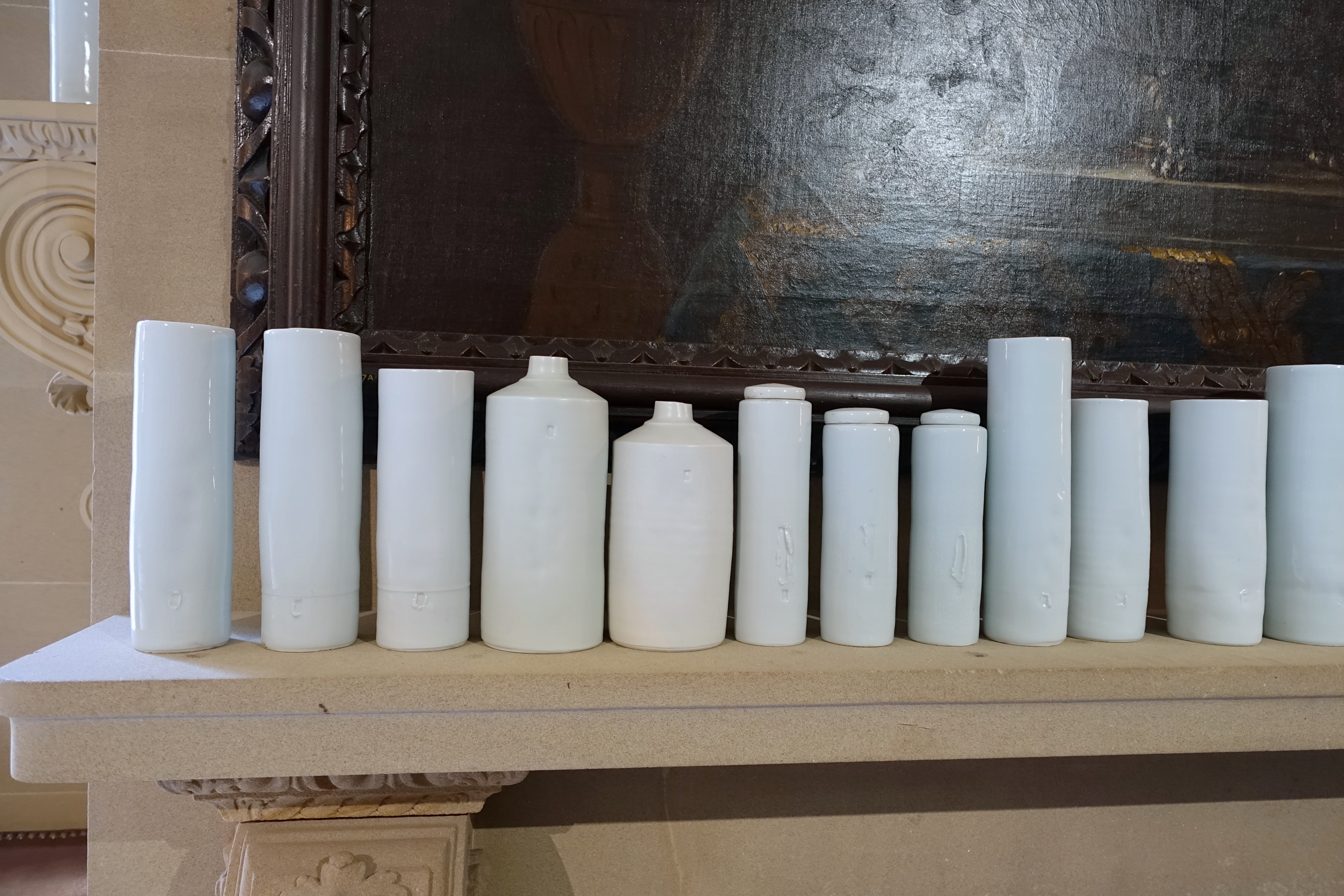 Porcelain artwork by Edmund de Waal, displayed in Chatsworth House - Derbyshire, England.